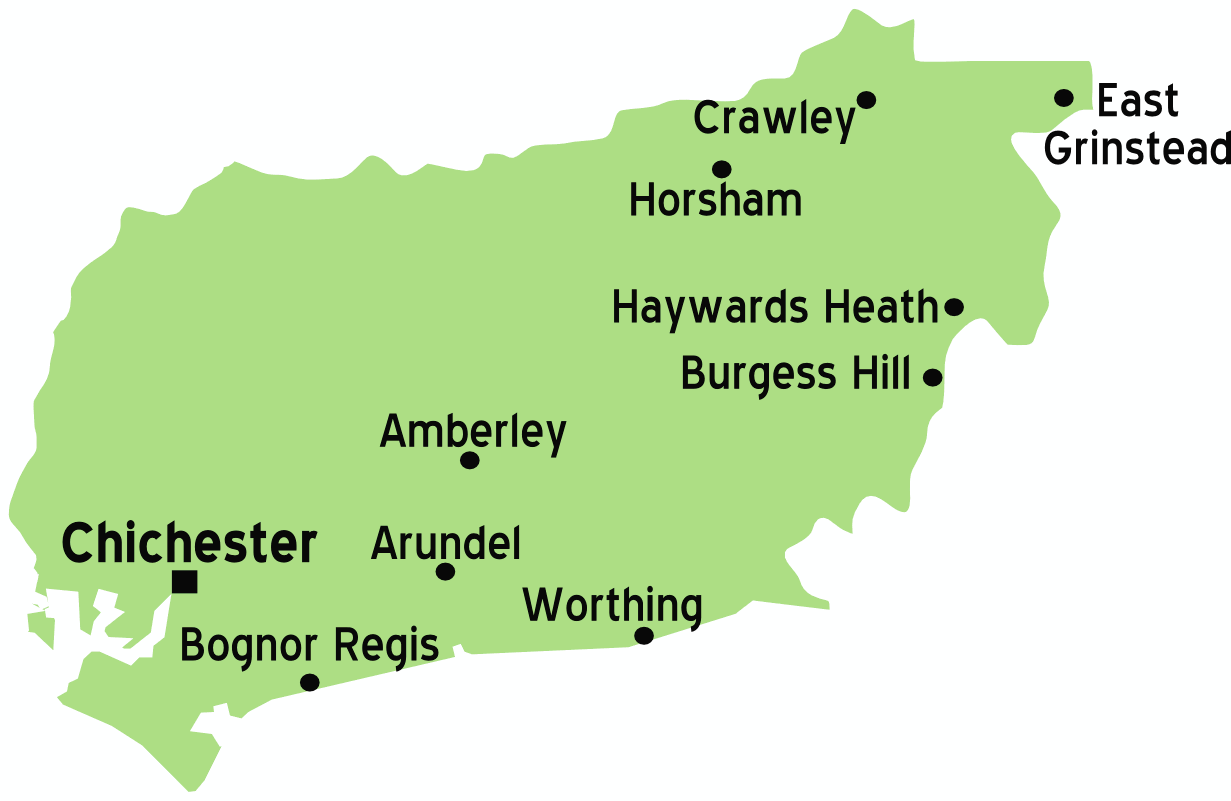 Map of West Sussex Source: :Image:UK map.svg map: United Kingdom Map of: United Kingdom